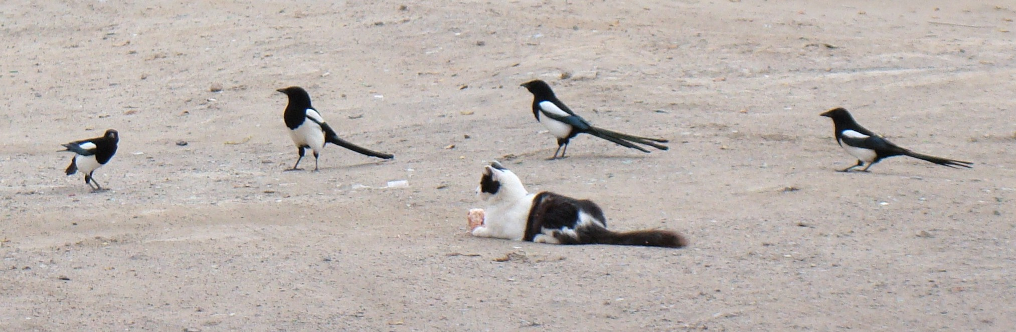 Magpies (Pica pica bactriana) and domestic cat (Felis catus). Baikonur-town, Kazakhstan.